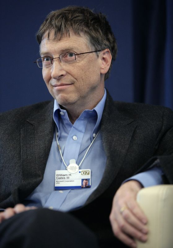 William H. (Bill) Gates III, Chairman, Microsoft Corporation, USA, captured during the session Scaling Innovation in Foreign Aid at the Annual Meeting 2007 of the World Economic Forum in Davos, Switzerland.